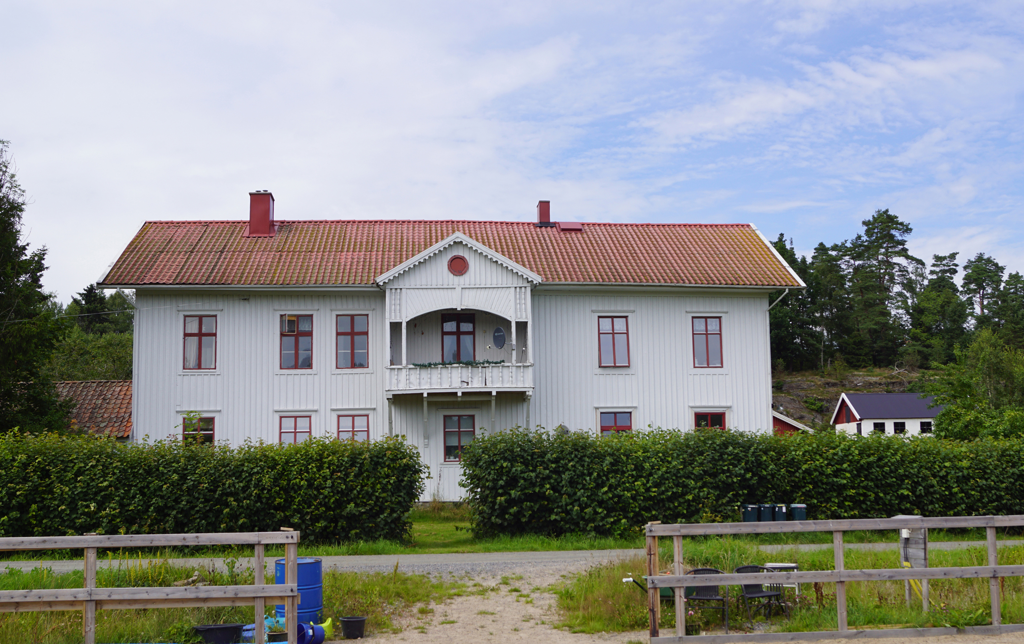 Kattleberg court house in Ale Municipality, Sweden.